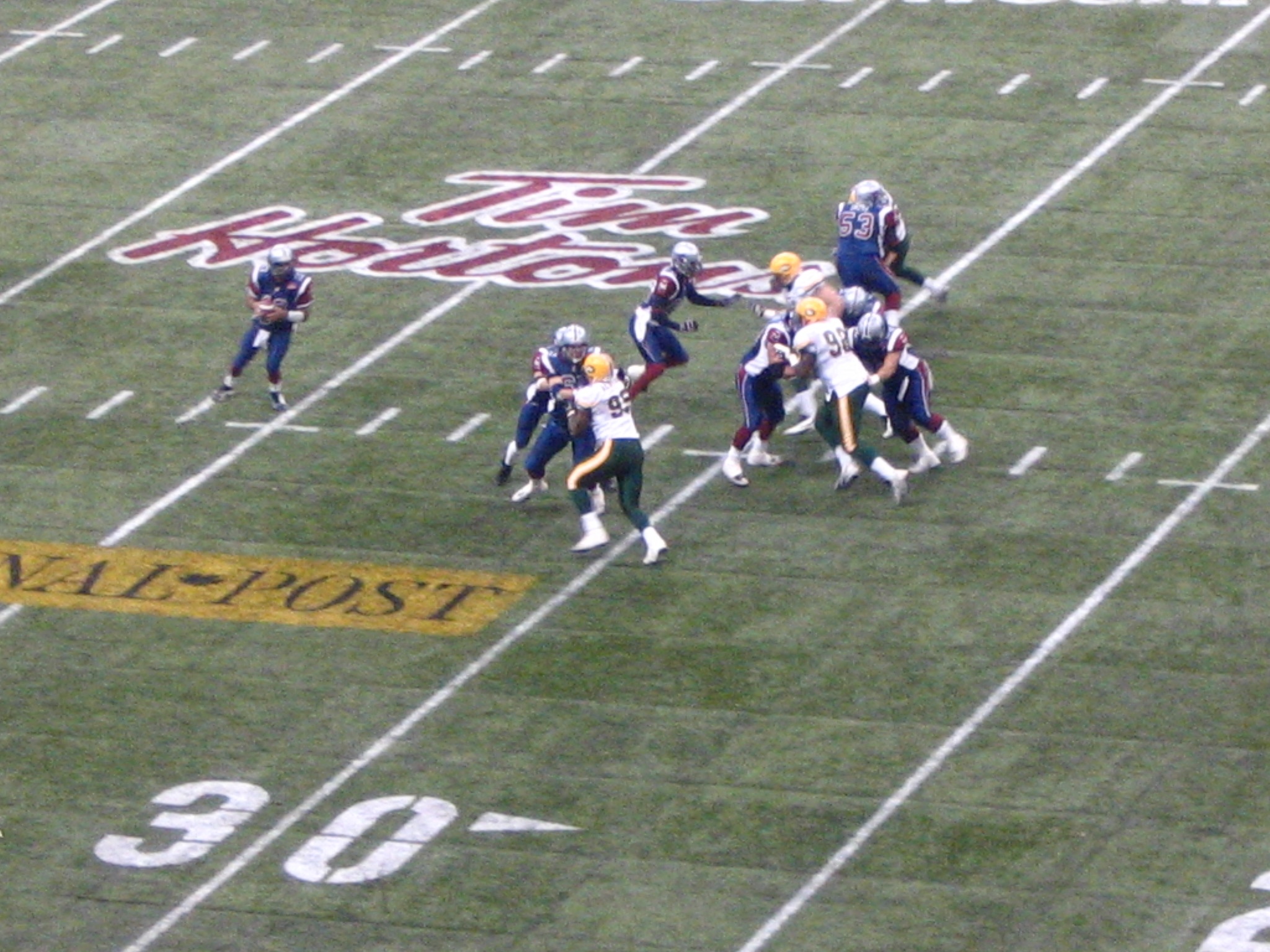 Montreal Alouettes quarterback Anthony Calvillo holds the ball and looks down field during game action in the 93rd Grey Cup game against the Edmonton Eskimos, November 27, 2005, at BC Place Stadium in Vancouver, British Columbia, Canada.